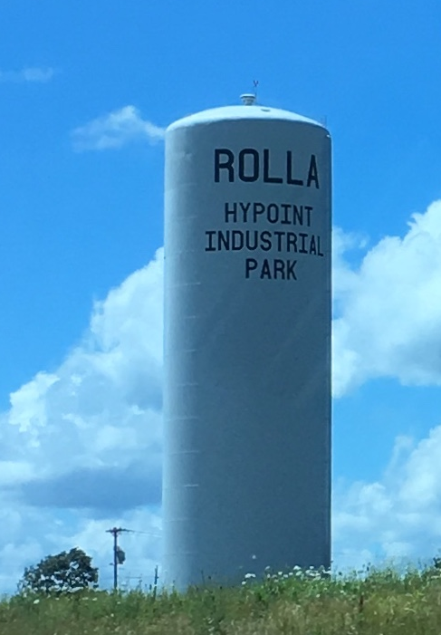 Water tower at Rolla, MO, for Hypoint Industrial Park, along north side of I-44.